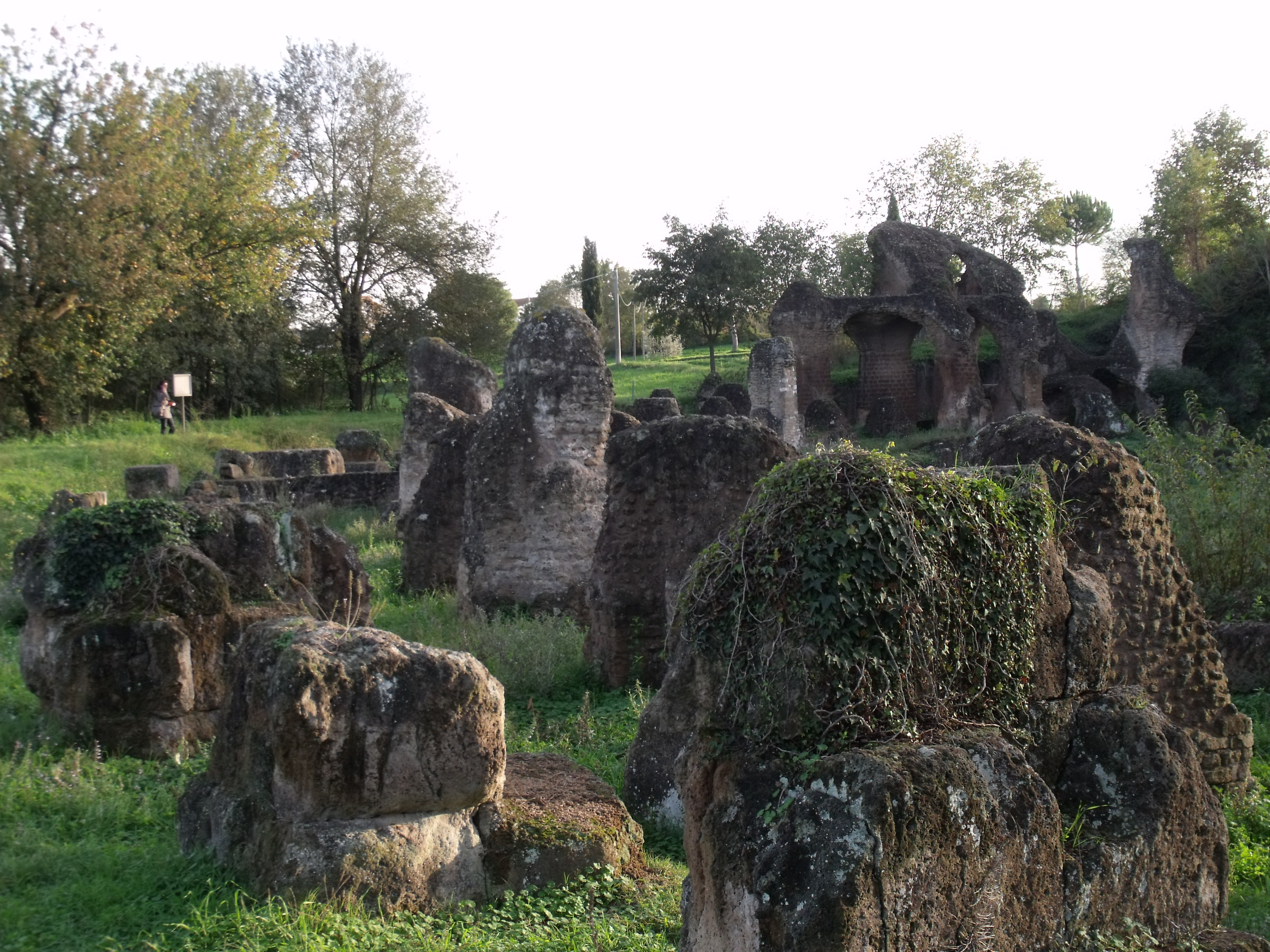 Anfiteatro in Ocriculum (Otricoli), Province of Terni, Umbria, Italy